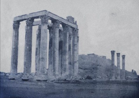 A calotype (early negative) of the Temple of Jupiter by George Wilson Bridges[George Wilson Bridges] in 1848.... has been digitally inverted to create this image